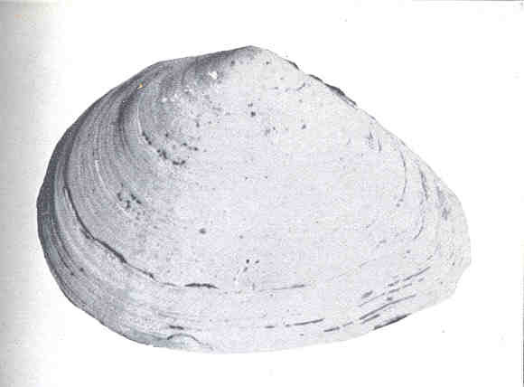 Shell of Macoma nasuta Subject: Clams, Macoma nasuta Tag: Shellfish